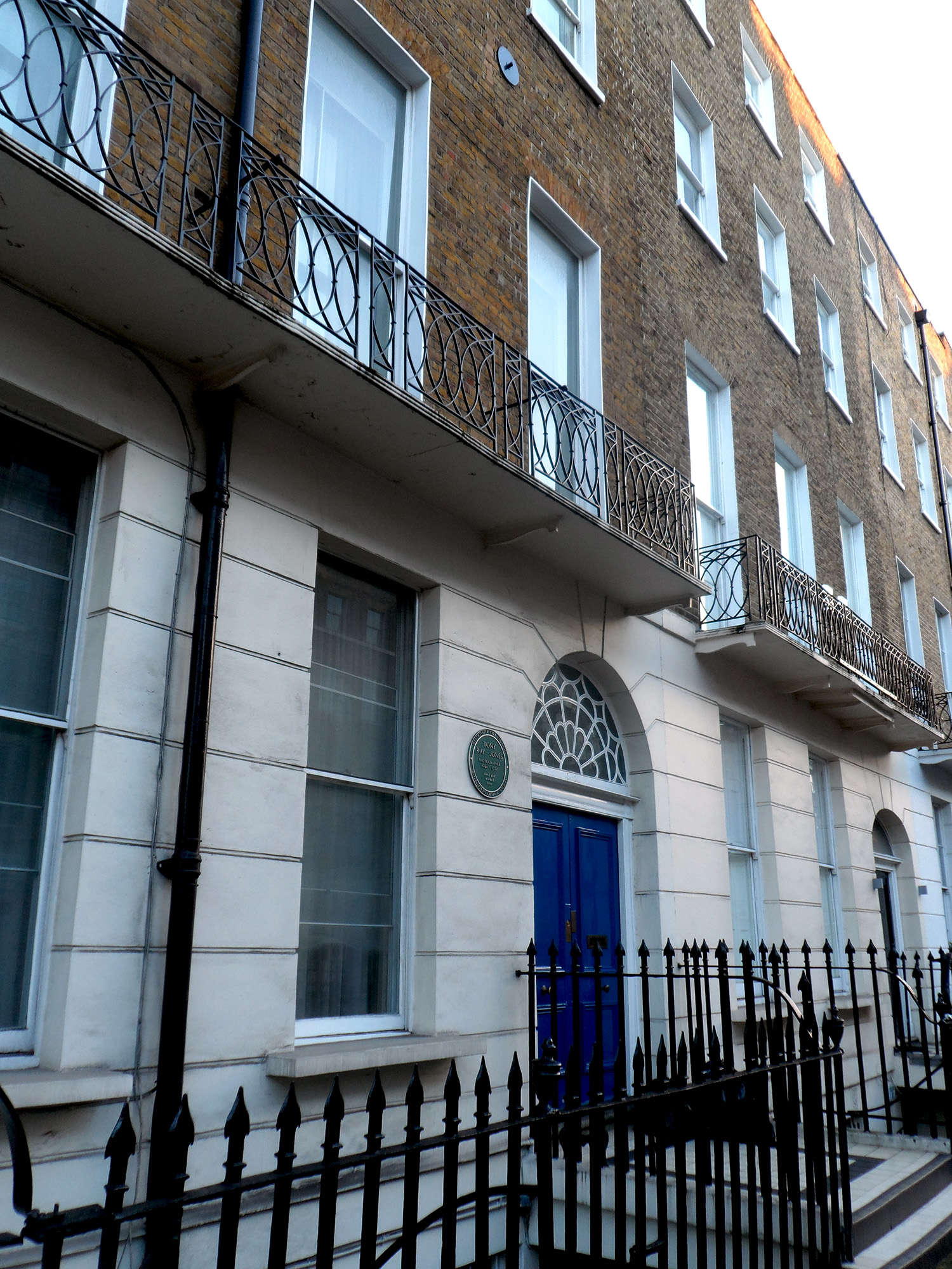 Tony Ray-Jones photographer 1941-1972 lived and worked here - 102 Gloucester Place, Marylebone, London W1U 6HT